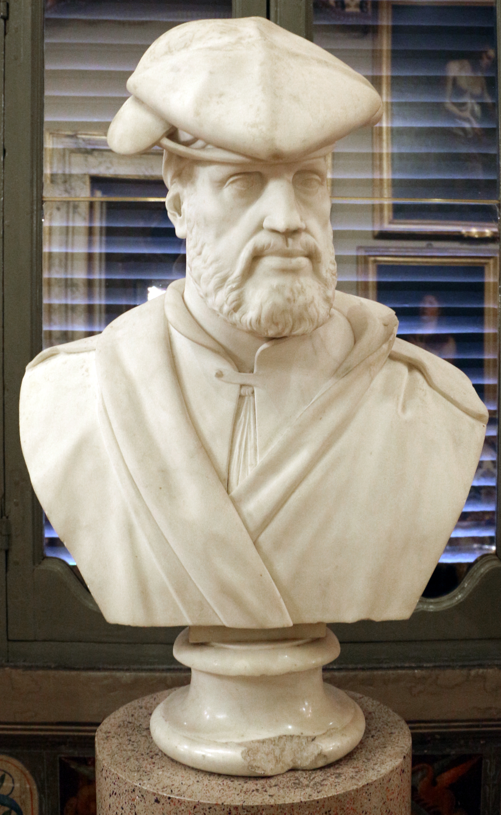 Sculptures in the Galleria Doria Pamphilj (Rome)